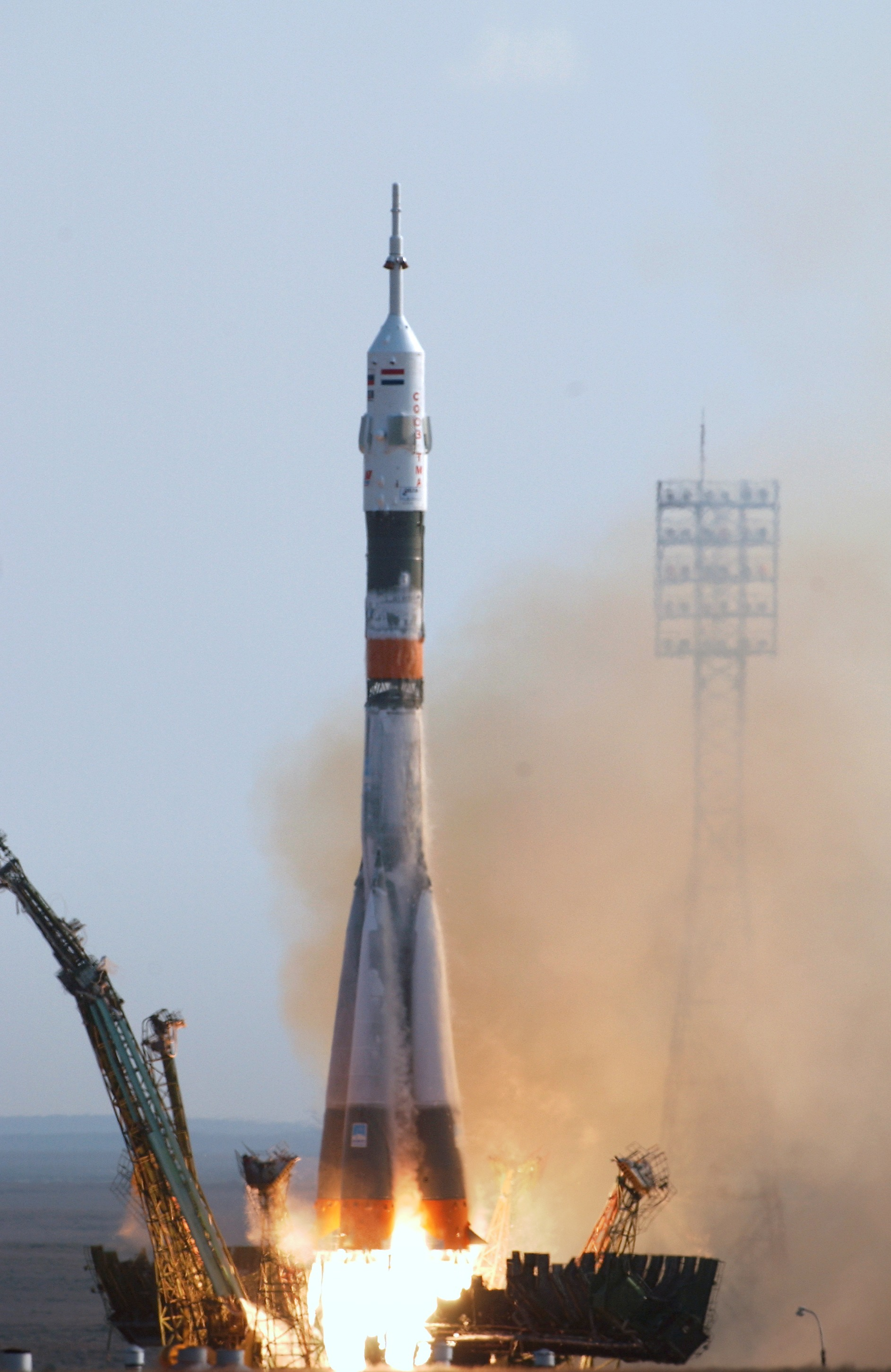 The Soyuz TMA-4 vehicle blasts off from the Baikonur Cosmodrome in Kazakhstan on Monday, April 19, 2004, carrying cosmonaut Gennady I. Padalka, Russia’s Federal Space Agency Expedition 9 mission commander; astronaut Edward M. (Mike) Fincke, NASA International Space Station (ISS) science officer and flight engineer; and ESA astronaut Andre Kuipers of the Netherlands to the ISS. Padalka and Fincke will spend six months on the ISS, replacing the Expedition 8 crew, which has been aboard the Station since October 20, 2003. Kuipers, who is flying under a commercial contract between ESA and Russia’s Federal Space Agency, will return to Earth with the Expedition 8 crew on April 30, 2004.